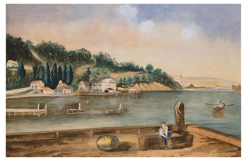 "Schuylkill River at Gray’s Ferry", by P. Clark, ca. 1835. This painting (watercolor and gouache on paper) depicts Gray's Garden (also known as Gray's Inn, Gray's Tavern, and Kochersperger's Hotel) on the west bank of the Schuylkill River in present-day West Philadelphia. The resort area, a favorite of delegates to the 1787 Constitutional Convention, was located near Gray's Ferry, the primary crossing for travelers approaching or departing Philadelphia to the south. Acquired by Library Company of Philadelphia from the Jay T. Snider Collection; posted at